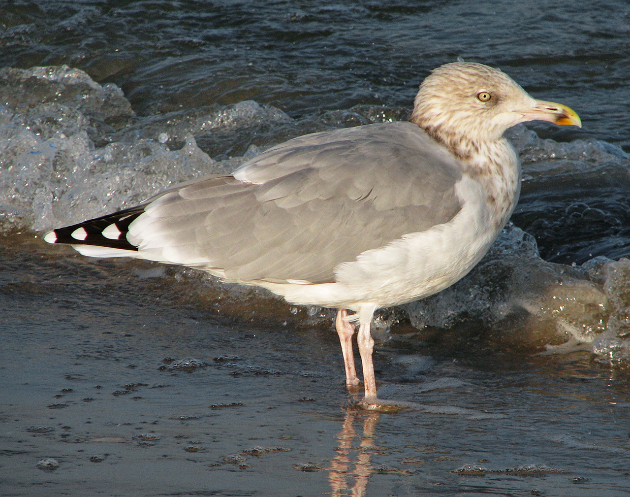 This image shows a herring gull.